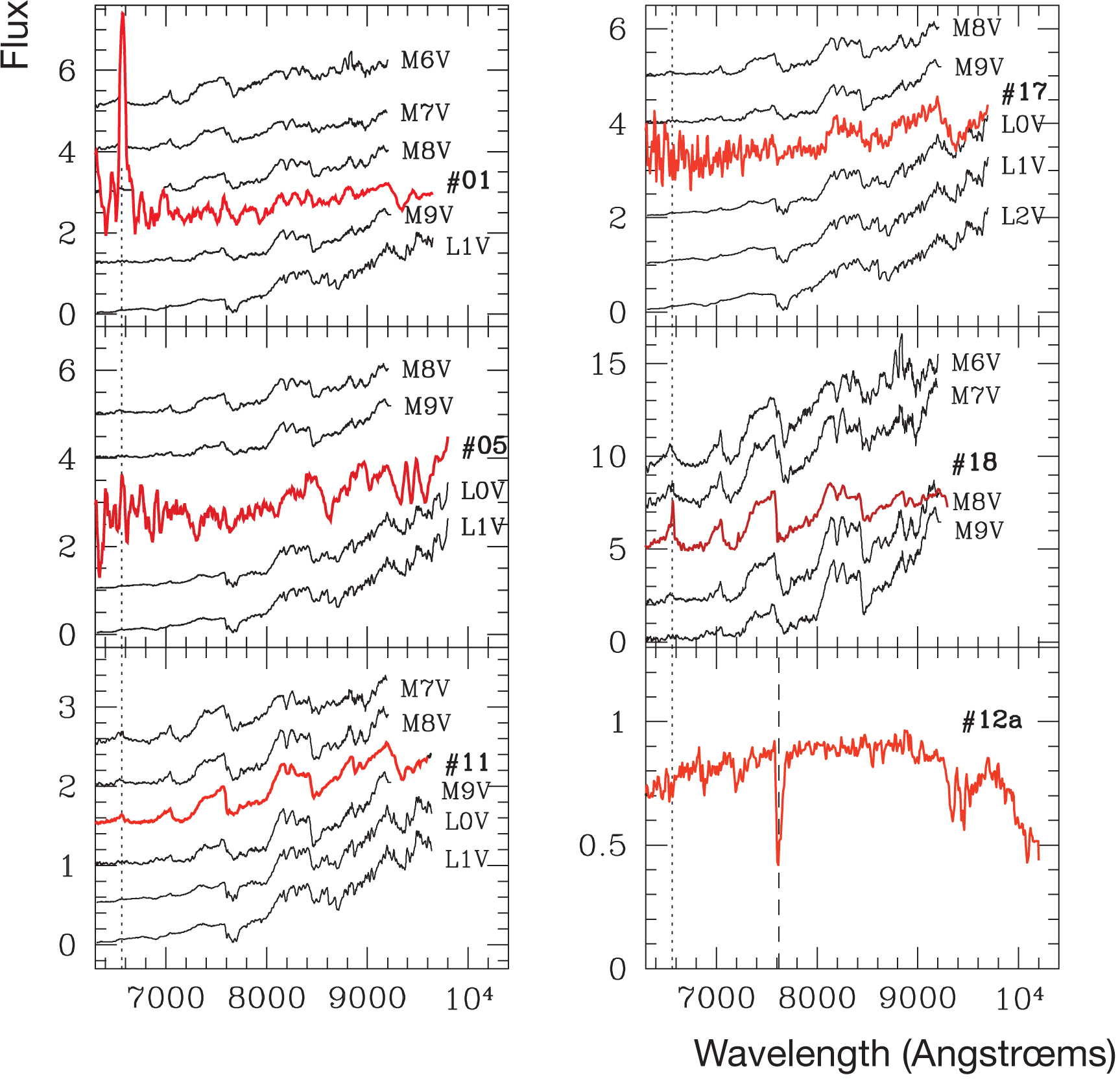 Optical spectra of six planetary mass object candidates, along with those of comparison objects. The dotted lines mark the location of H while the dashed line corresponds to a telluric absorption feature.